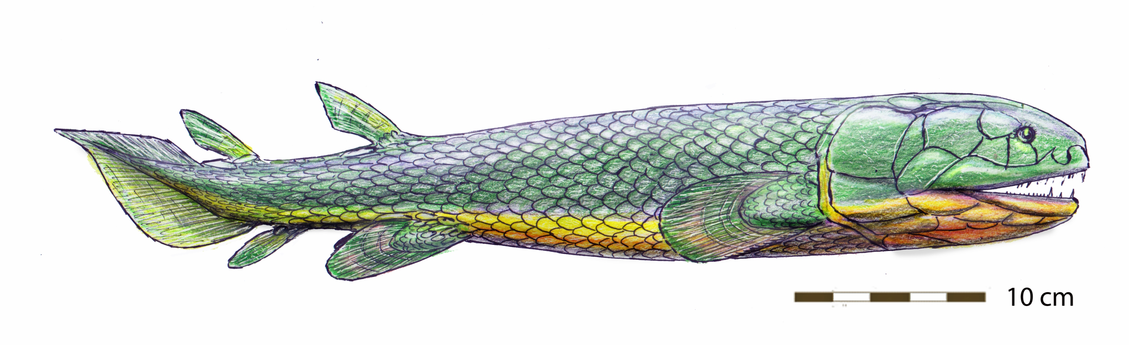 Rhizodopsis sauroides, rhizodopsid rhipidistian from Carboniferous of United Kingdom